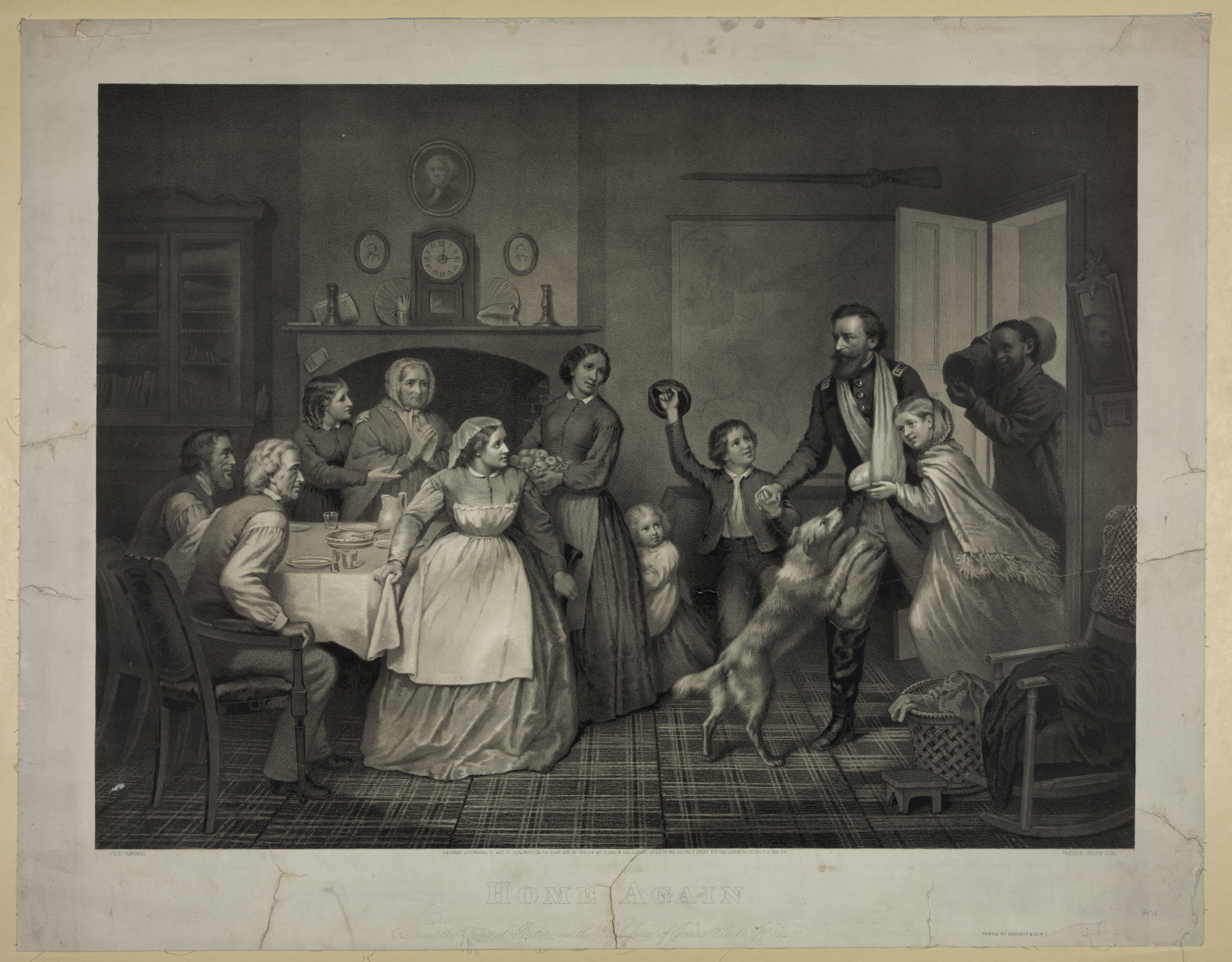 Title: Home again / lith. by Fabronius ; painted by Trevor McClurg. Abstract/medium: 1 print : lithograph.